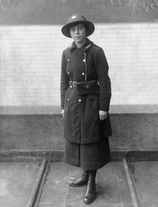 GPO telegraph messenger, World War I